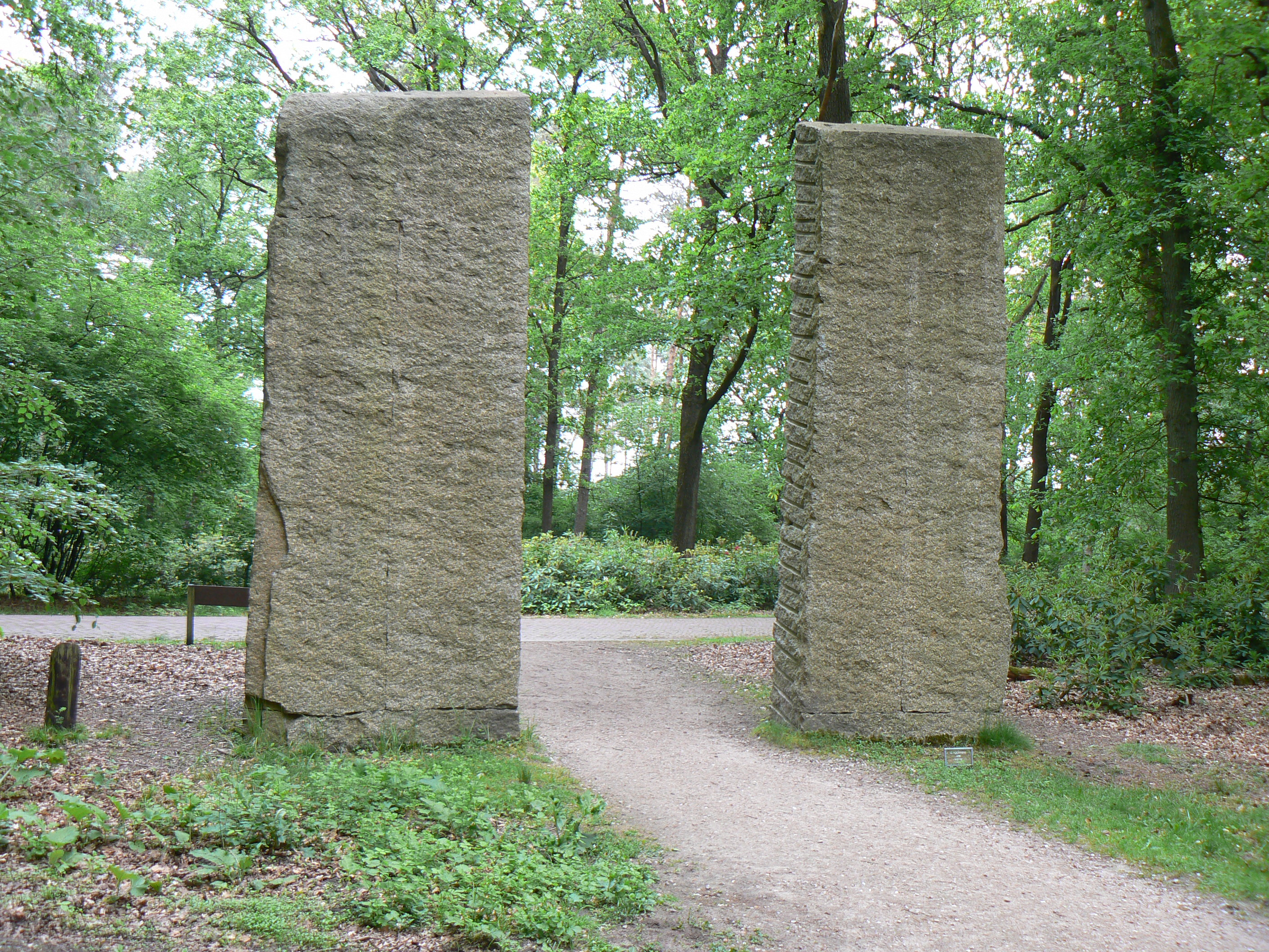 sculptures (2) Untitled (1988) by Ulrich Rückriem in sculpturepark KMM/The Netherlands